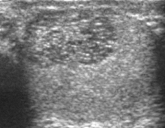 Scrotal ultrasonography of tubular ectasia mimicking a tumor.